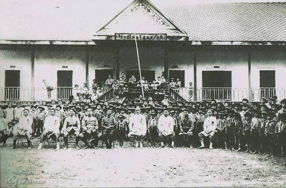 visuttharangsi school in kanchanaburi